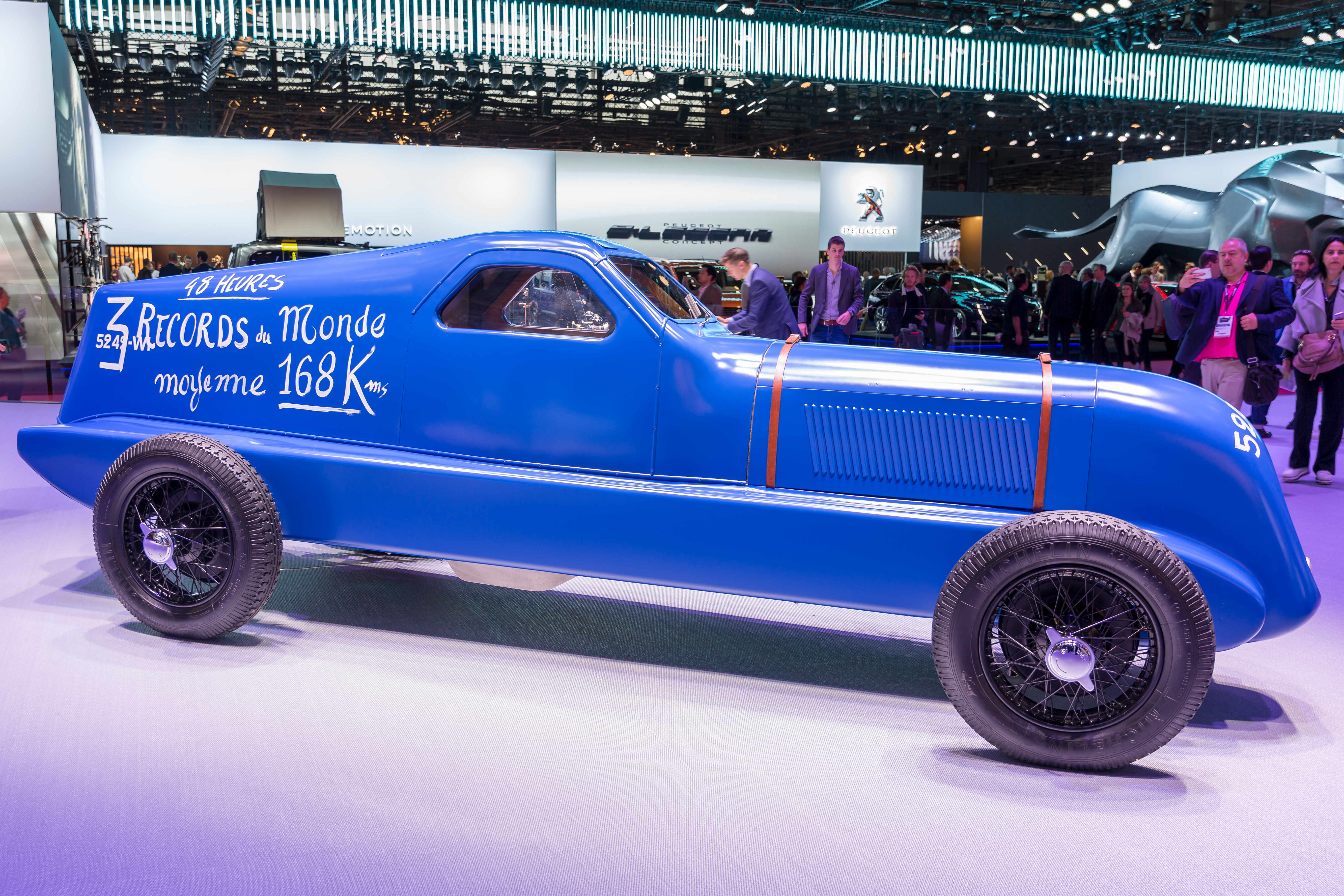 Renault Nervasport record vehicle at Mondiale Paris Motor Show 2018